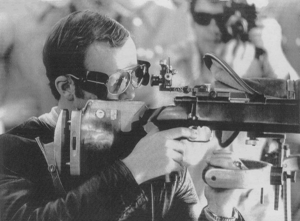 LG57 '72 Wire Photo JOHN WRITER Small Bore Rifle Chicago Athlete Munich Olympics